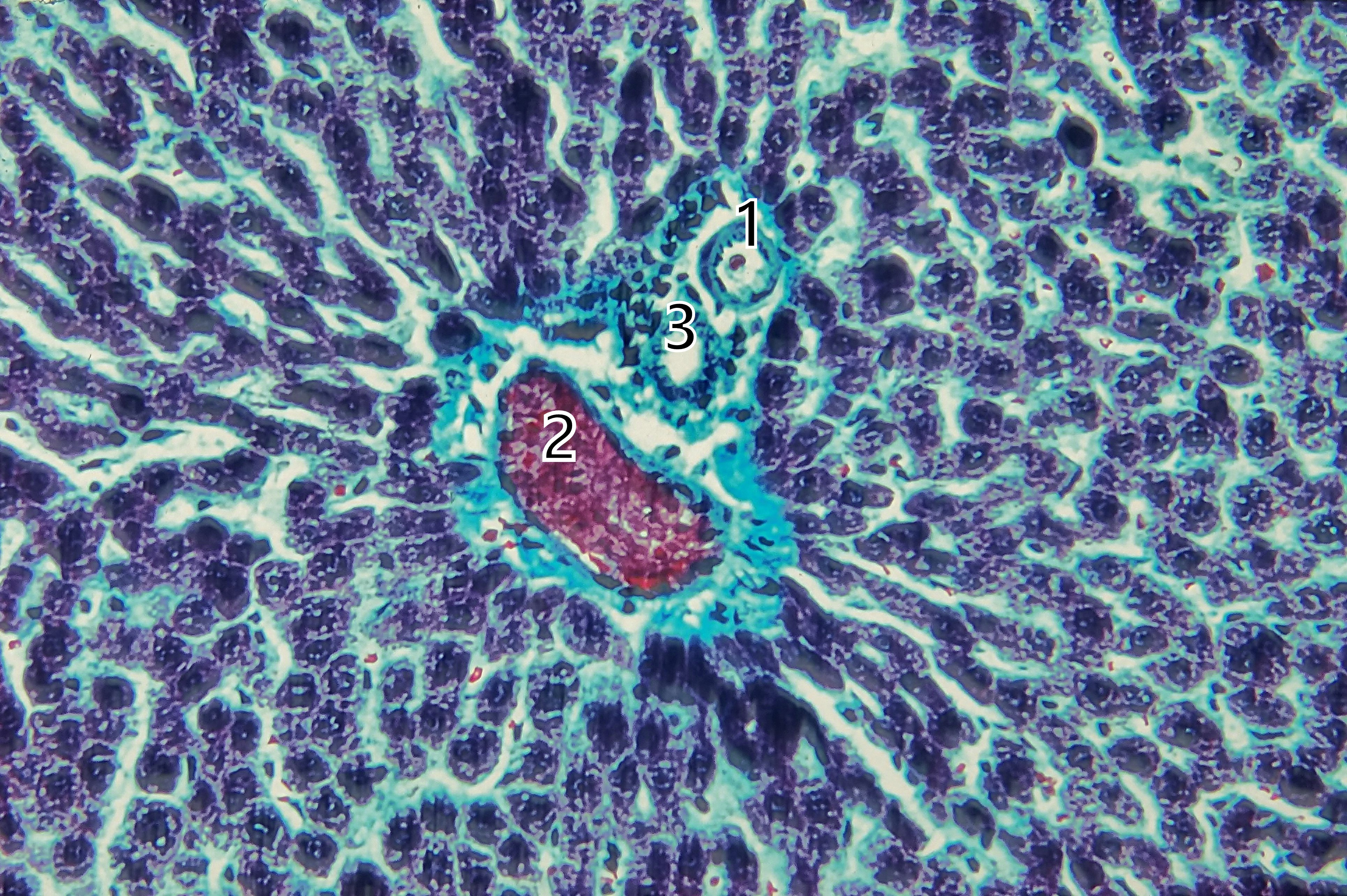 Glisson-Trias of a rat liver, micrograph. 1 Arteria interlobularis, 2 Vena interlobularis, 3 Ductus biliferus